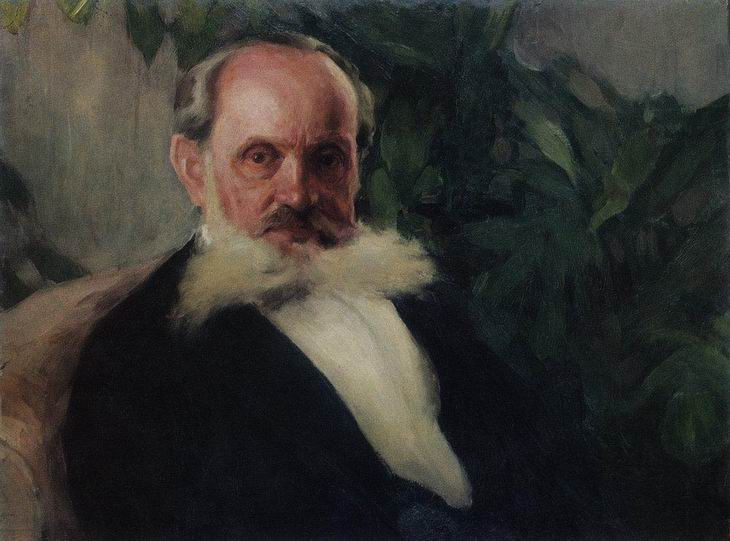 Portrait of Emmanuil Hrabar (painter's father)